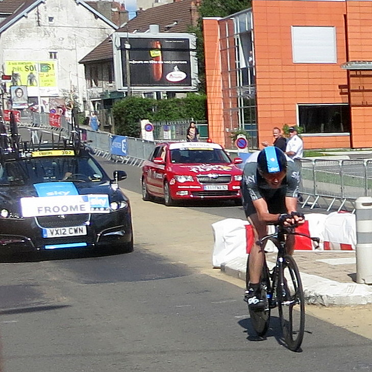 Froome Zoom Zooming to second place on the stage